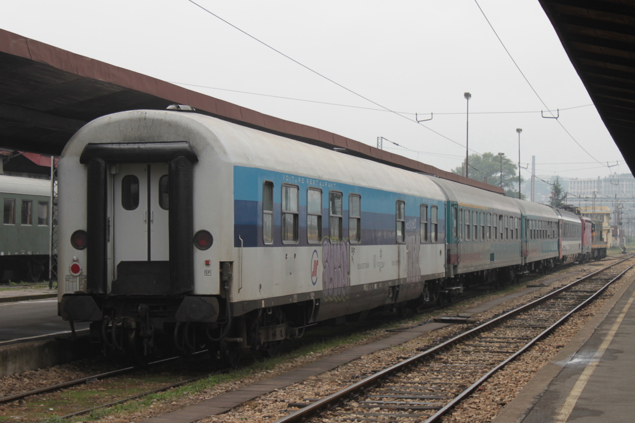 ŽS WRl 51 72 87-71 654-5 leaving Belgrade train station in the consist of B 414 "Alpine Pearls" to Schwarzach-St. Veit.